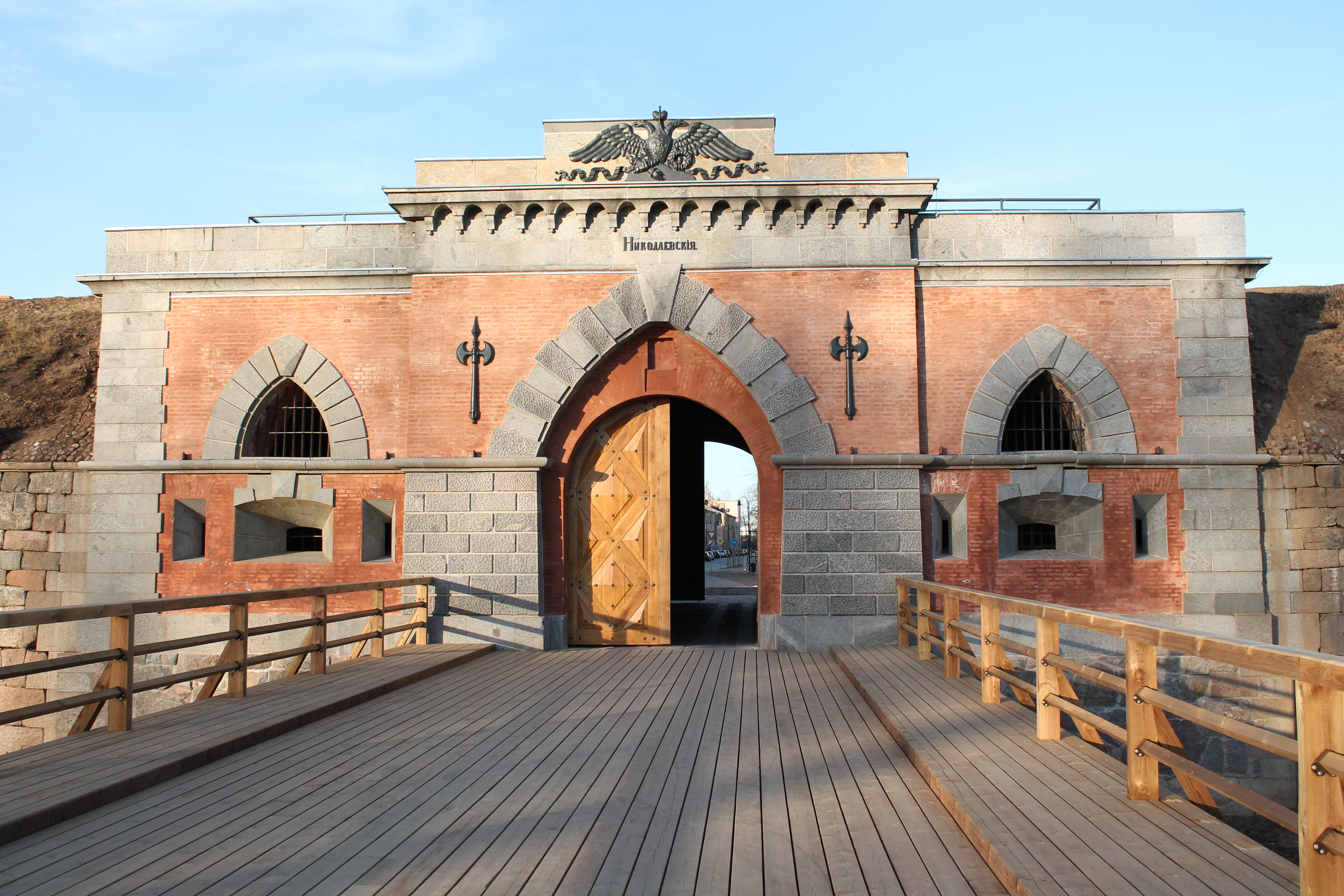 External facade of the Nicholas Gate in Daugavpils Fortress